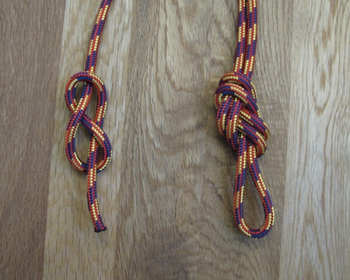 A figure-eight knot (left), and a figure-eight loop (right)